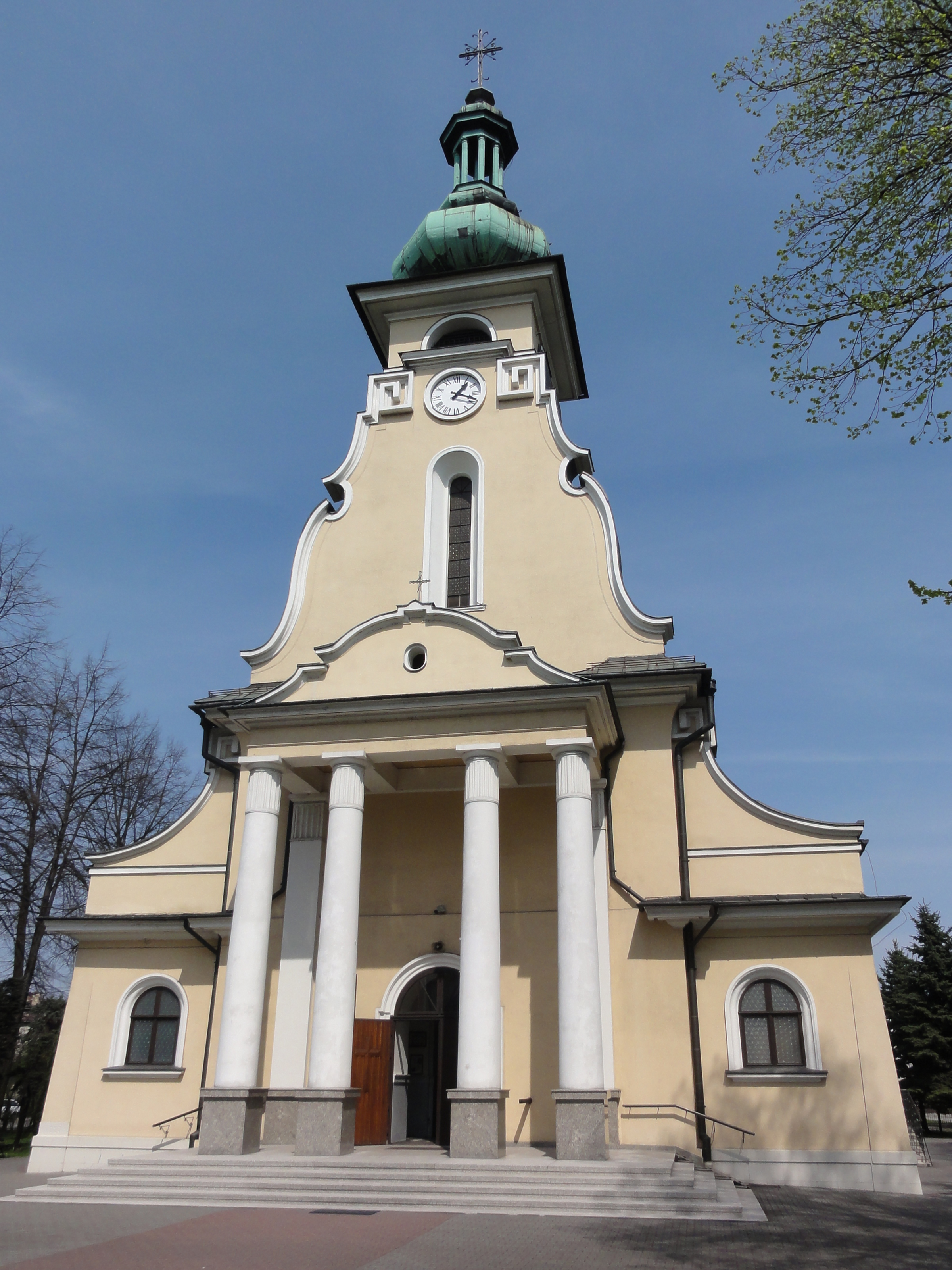 Christ the King church in Chybie